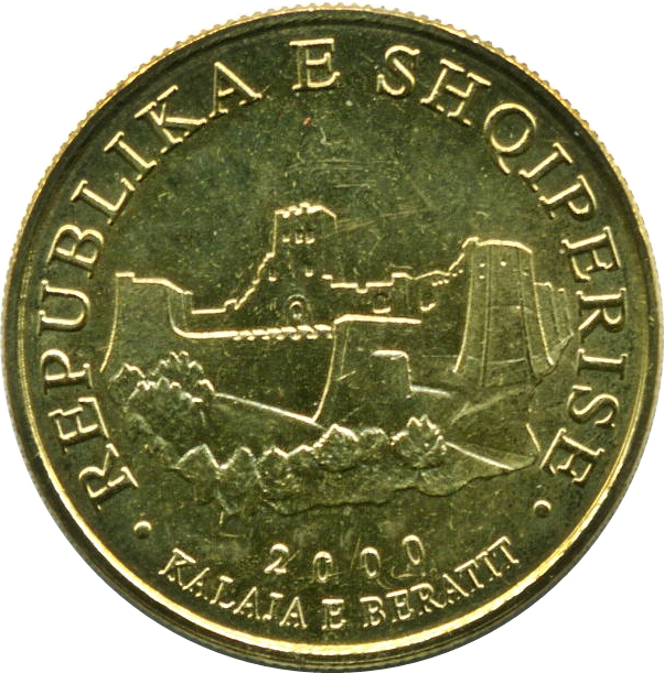 10 lekë of Albania in 2009 Reverse